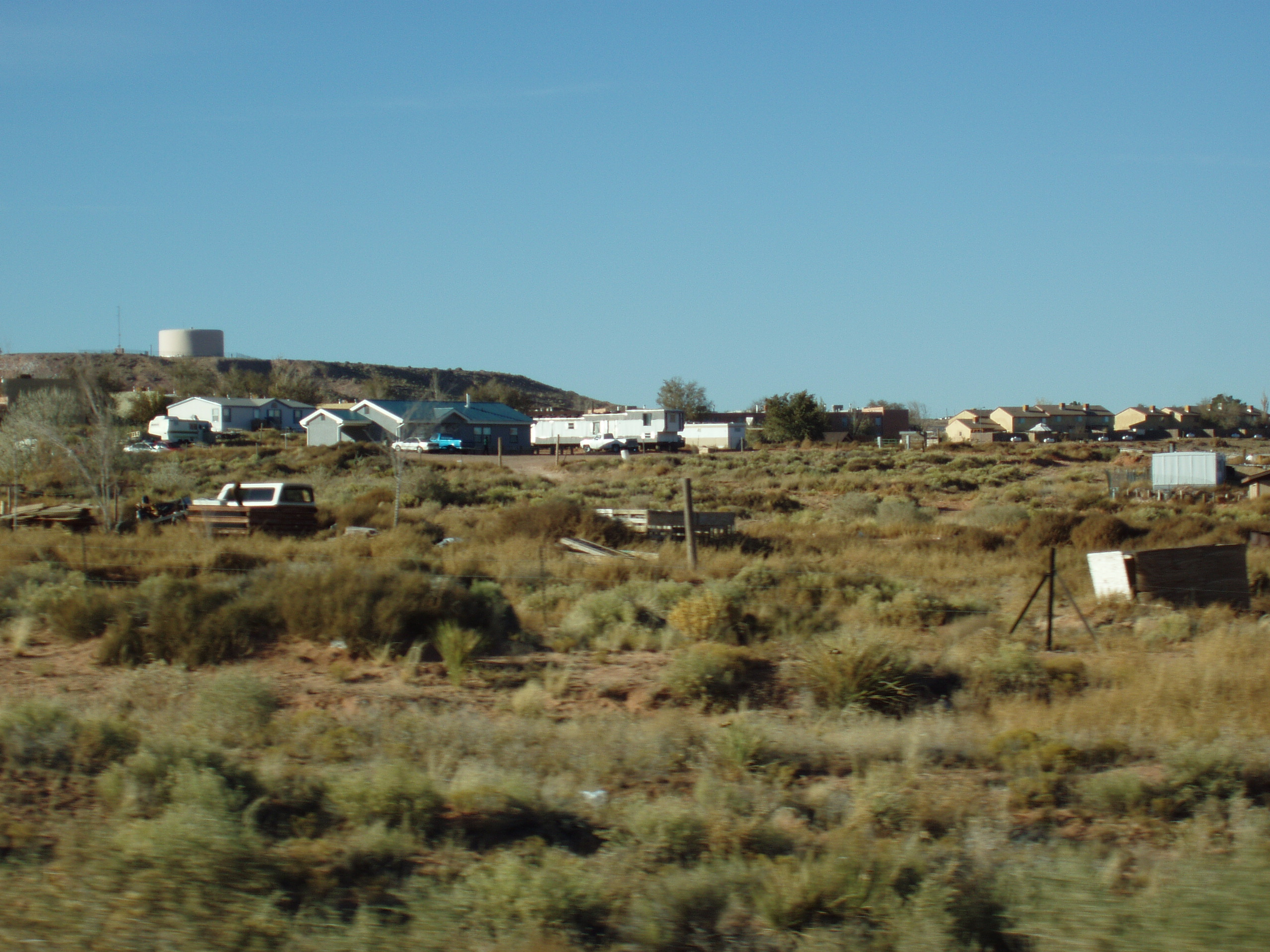 Outskrits of Tuba City, Arizona.